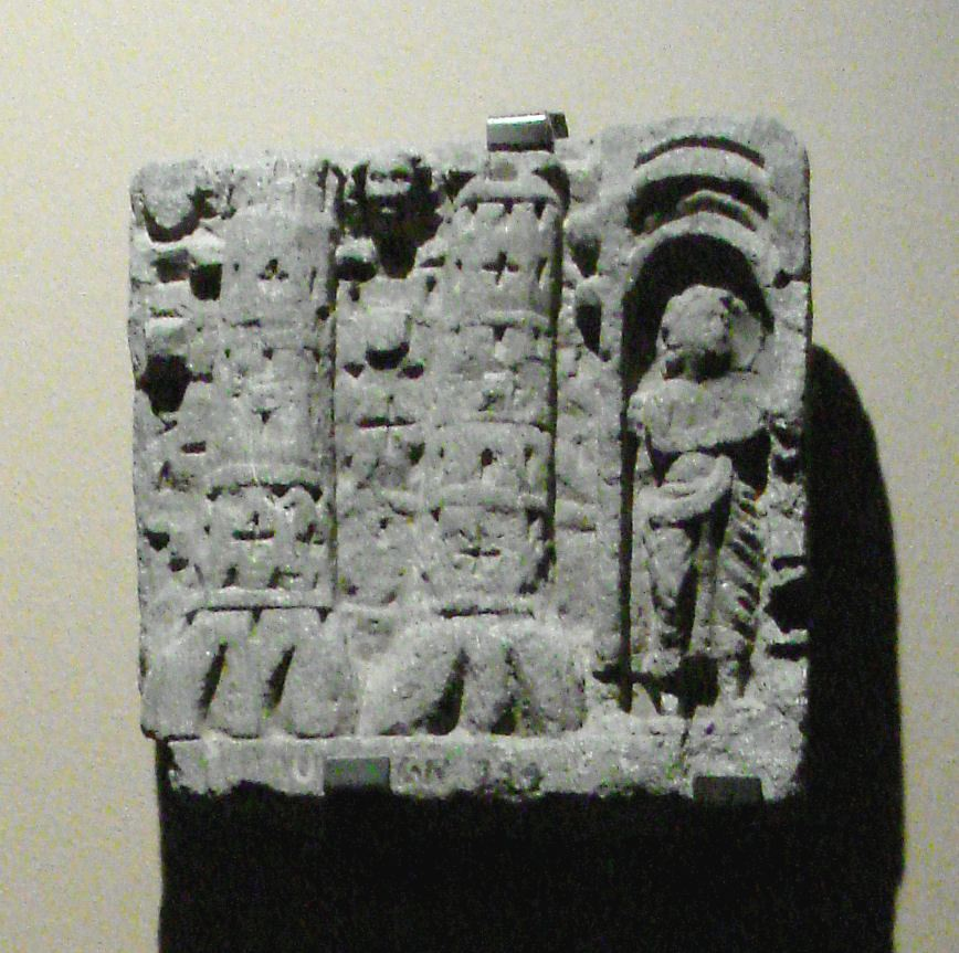 Gandhara_fortified_city